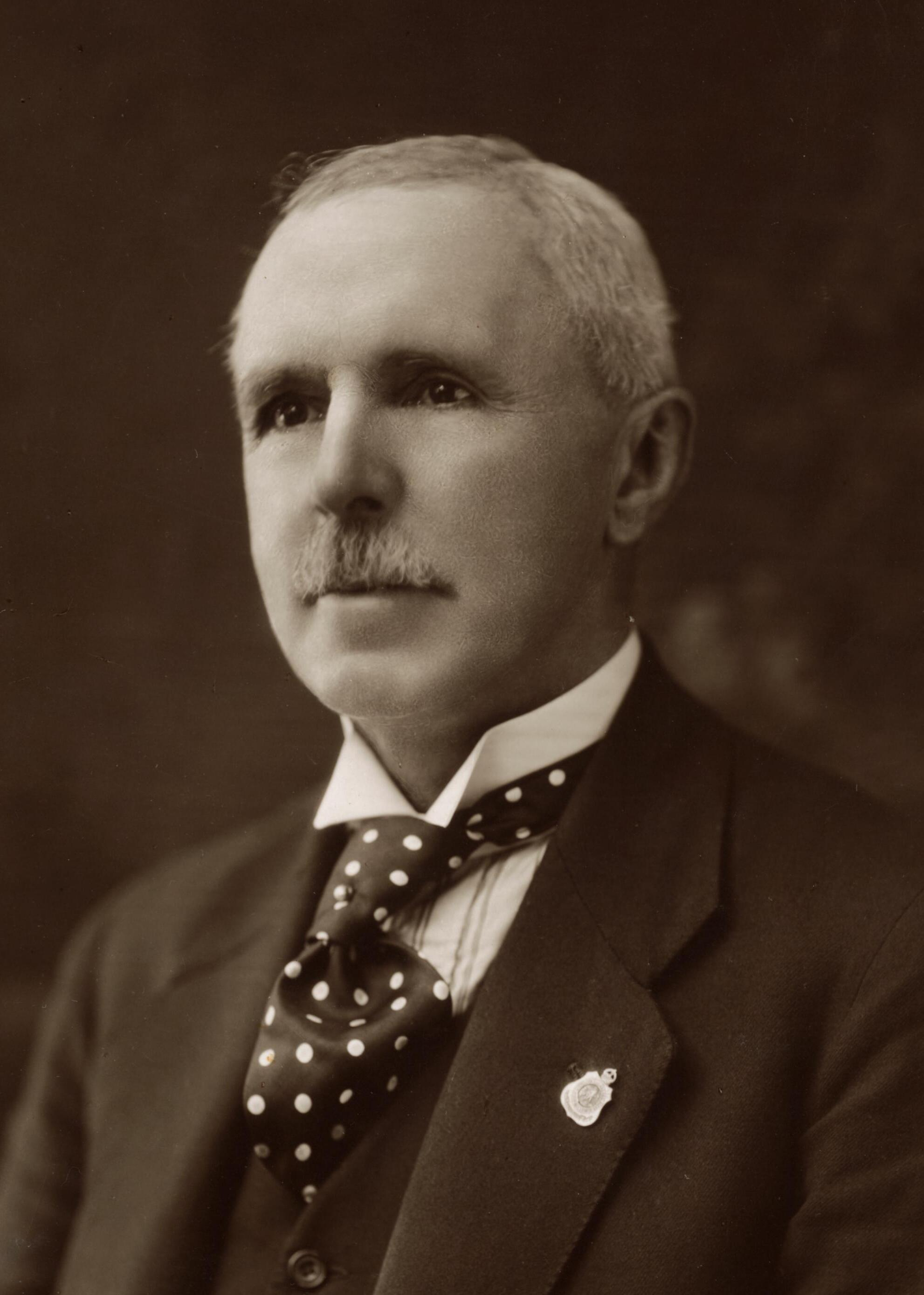 Richard Crouch, ca. 1928